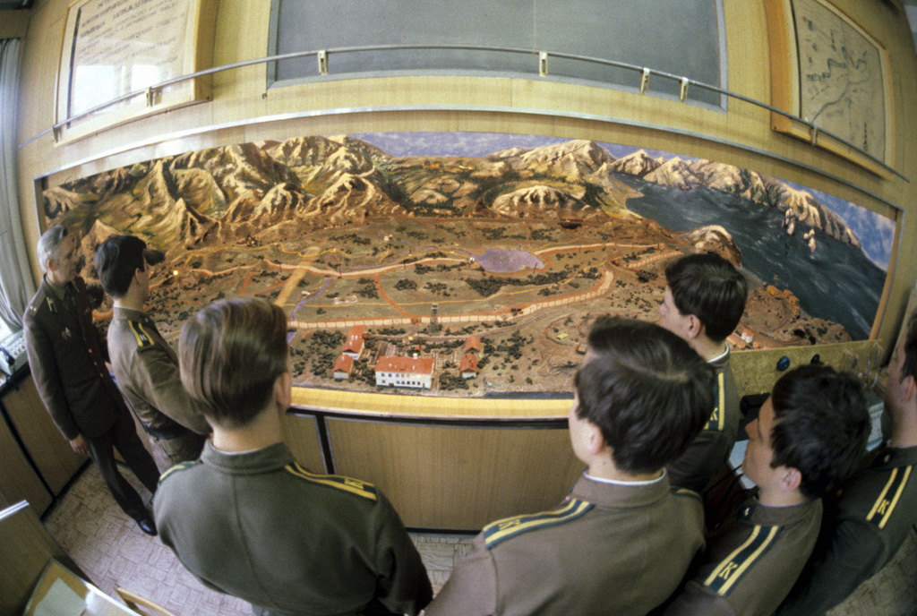 “Cadets at the technical training standing by the layout of the outpost area”. Cadets at the technical training standing by the layout of the of the outpost area. Moscow Mossovet Border Guards Command Higher School of the USSR KGB